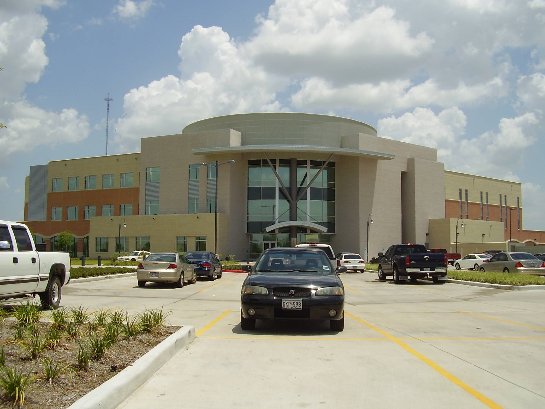 HCCS Stafford main classroom building